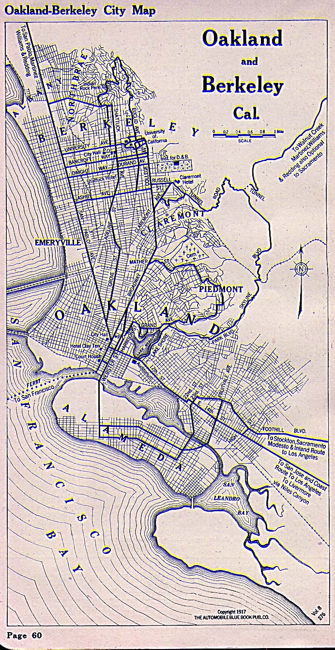 Map of Oakland and Berkeley in 1917, originally listed at